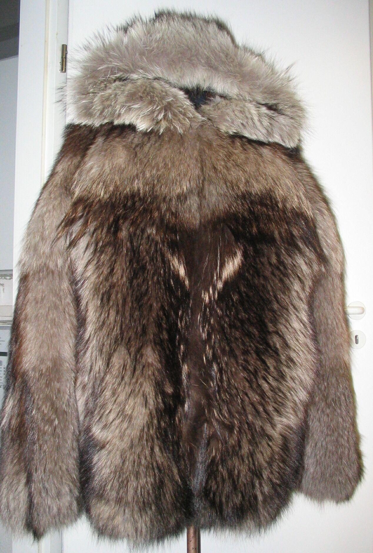 Timber wolf jacket for men (styled by Michoulas, Canada)